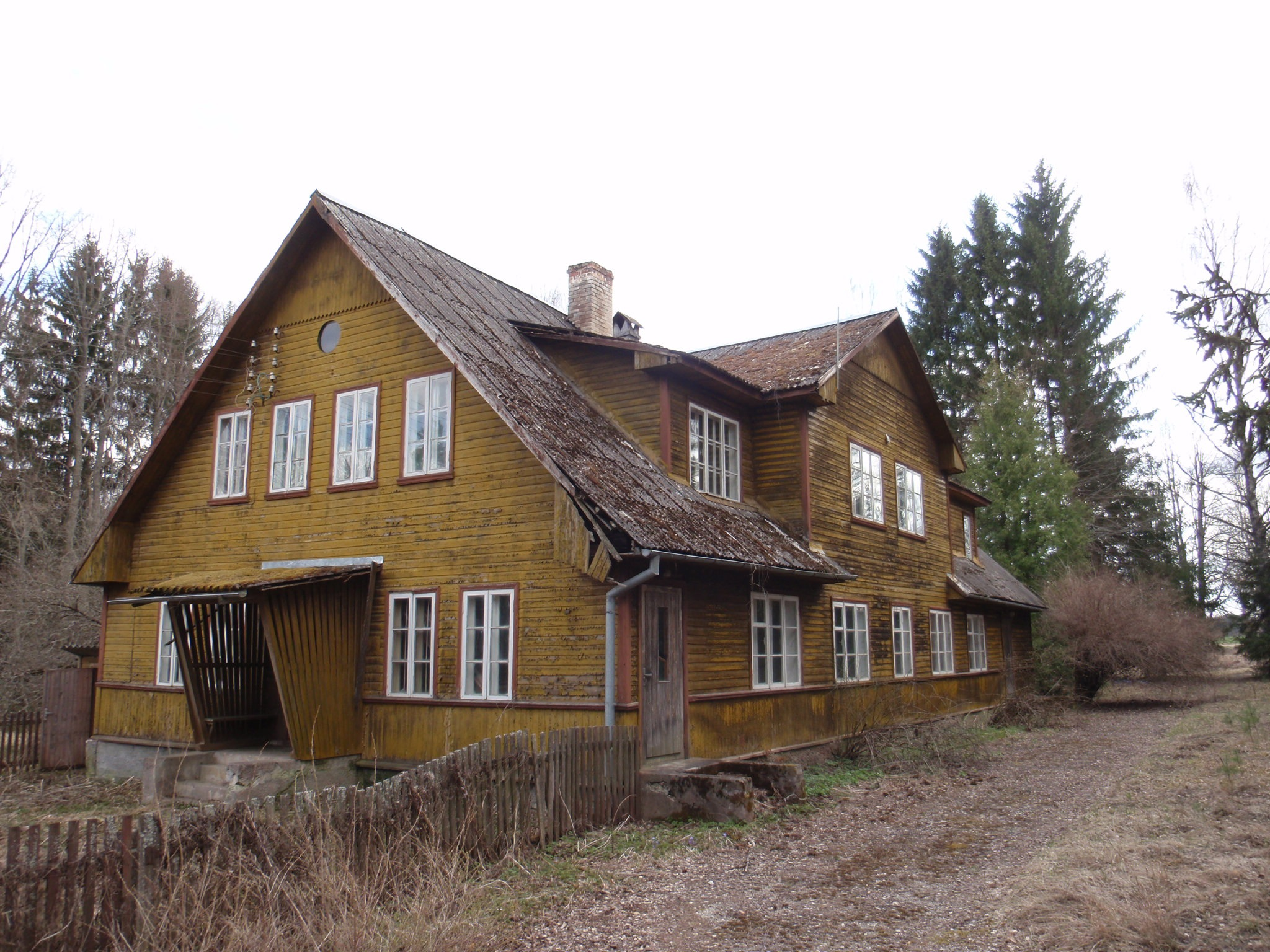 Kiidjärve haigla